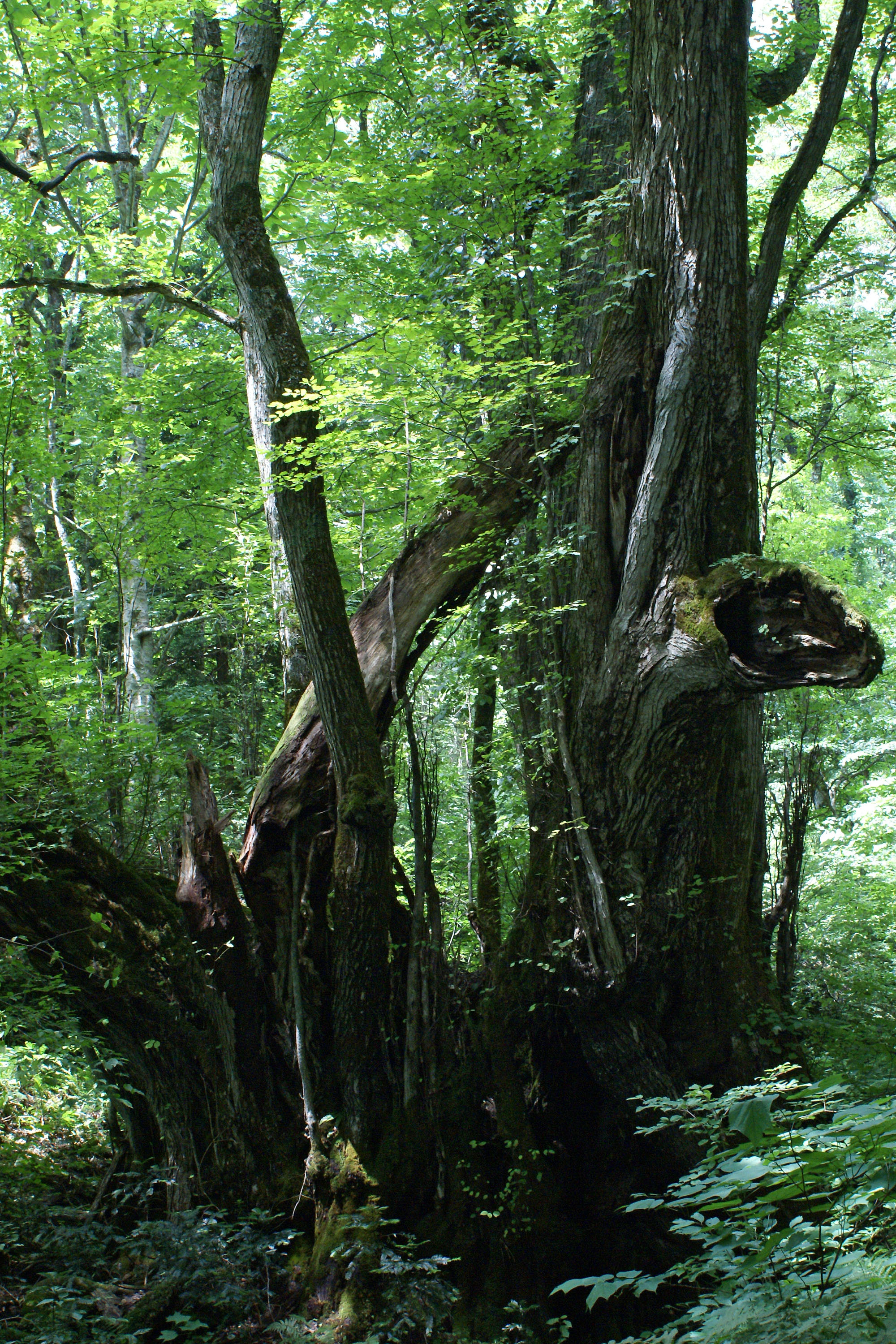 The tree of Katsura (Cercidiphyllum japonicum) for age-of-a-tree 1000 years "great Katsura of Wachi" in Torokawataira, Kami, Hyogo Prefecture, Japan